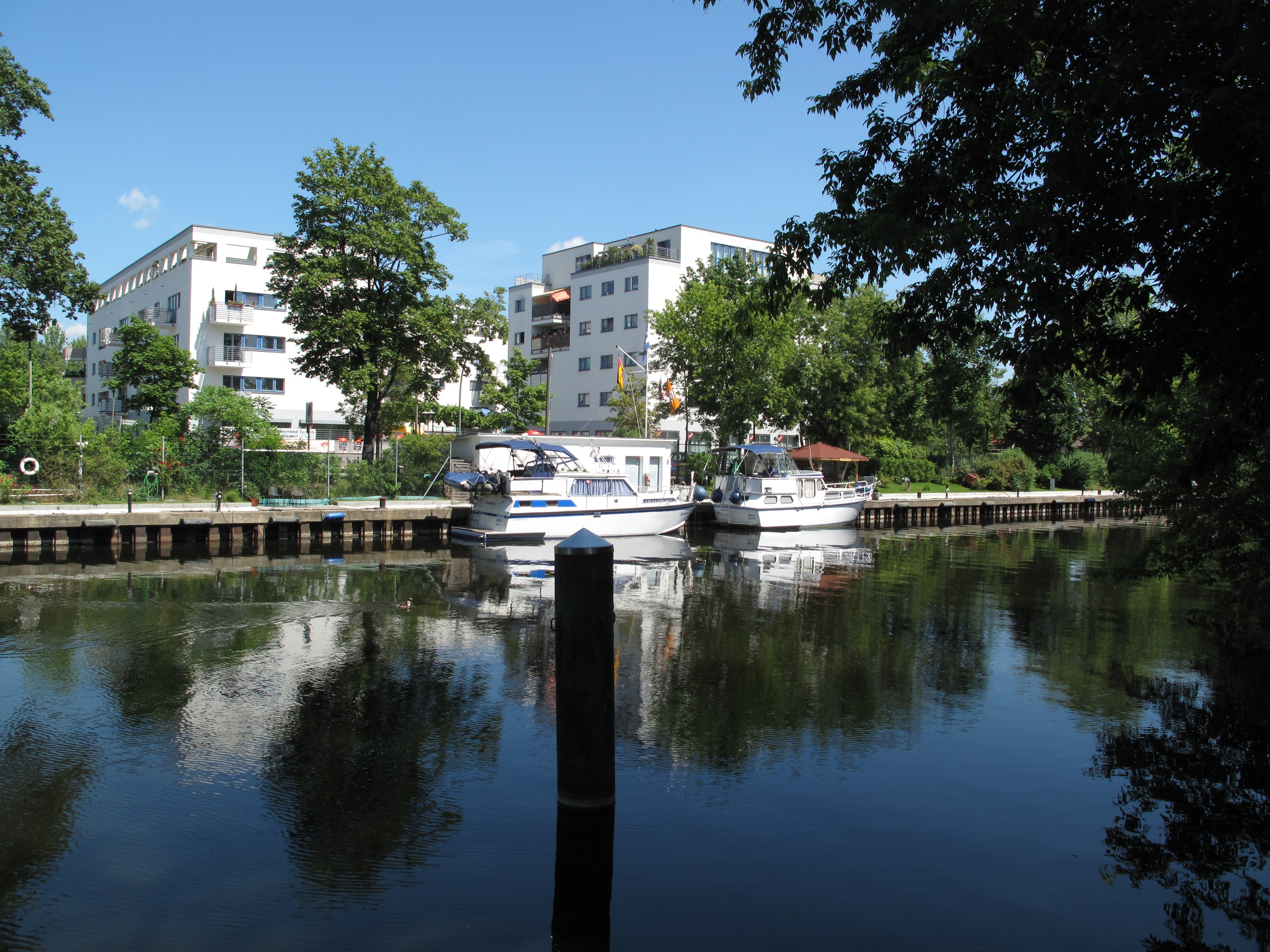 The Aalemannkanal is a branch canal of the river Havel in Berlin, Borough Spandau, locality Hakenfelde. Between 1994 and 1997 the modern Wohnquartier Aalemannufer (living quarter) was built on the north bank. View over the canal to the cubes of the forward settlement area.